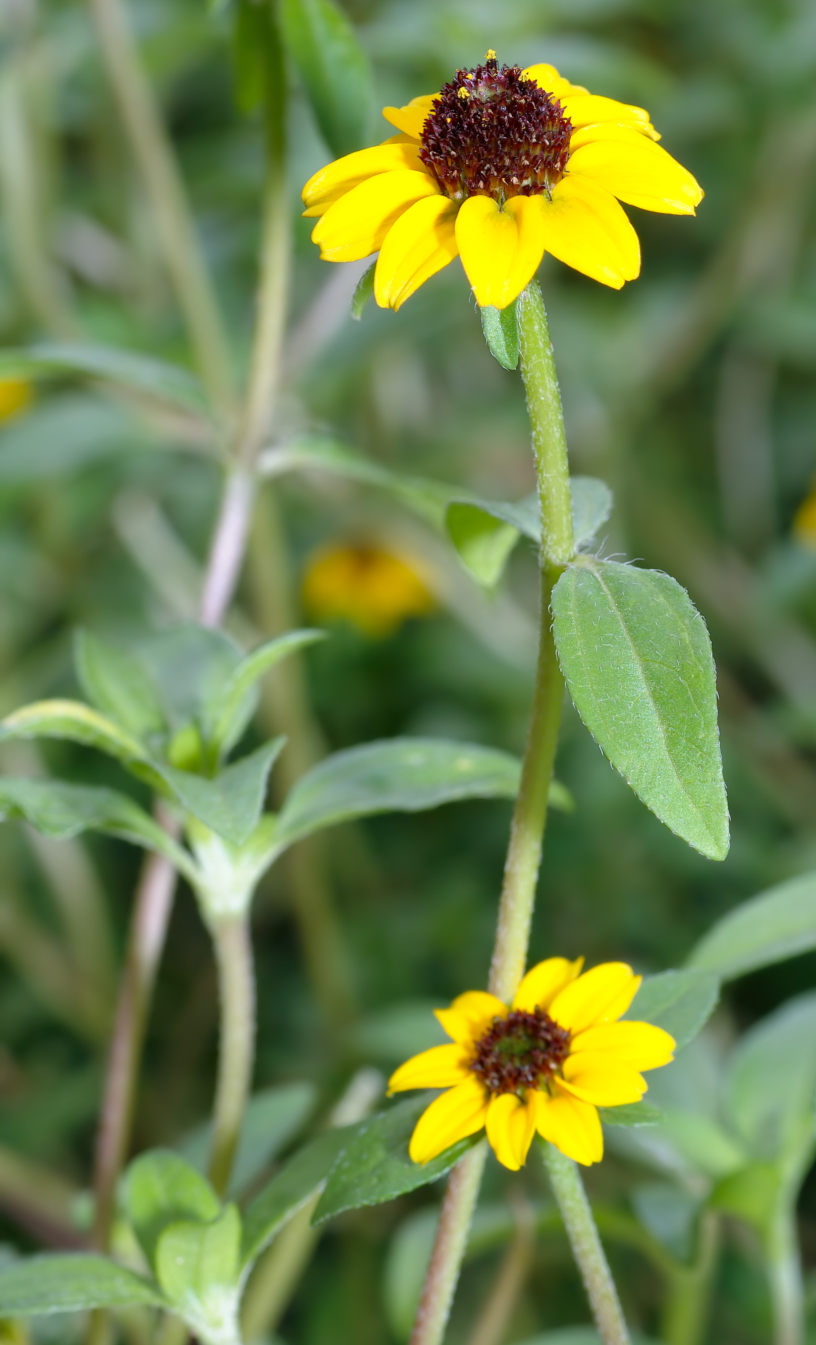 This image shows a Creeping Zinnia plant (Sanvitalia procumbens).